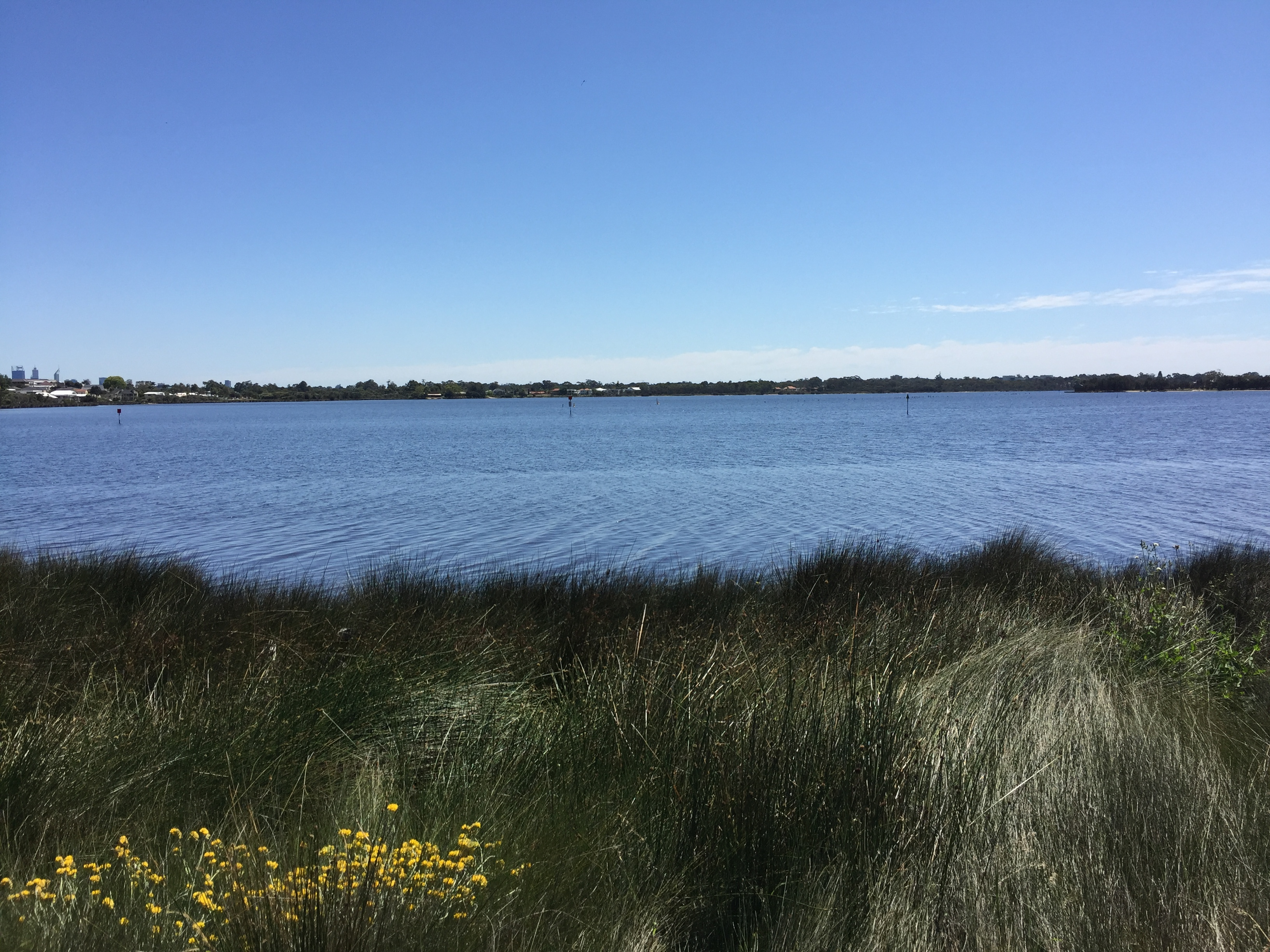 Canning River from south shore near Rob Bruce Park.